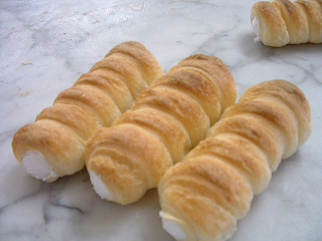 Rudiferia's Schaumrollen, Kirchgasse 49, Gmuend in Carinthia, district Spittal an der Drau, Caritnhia, Austria